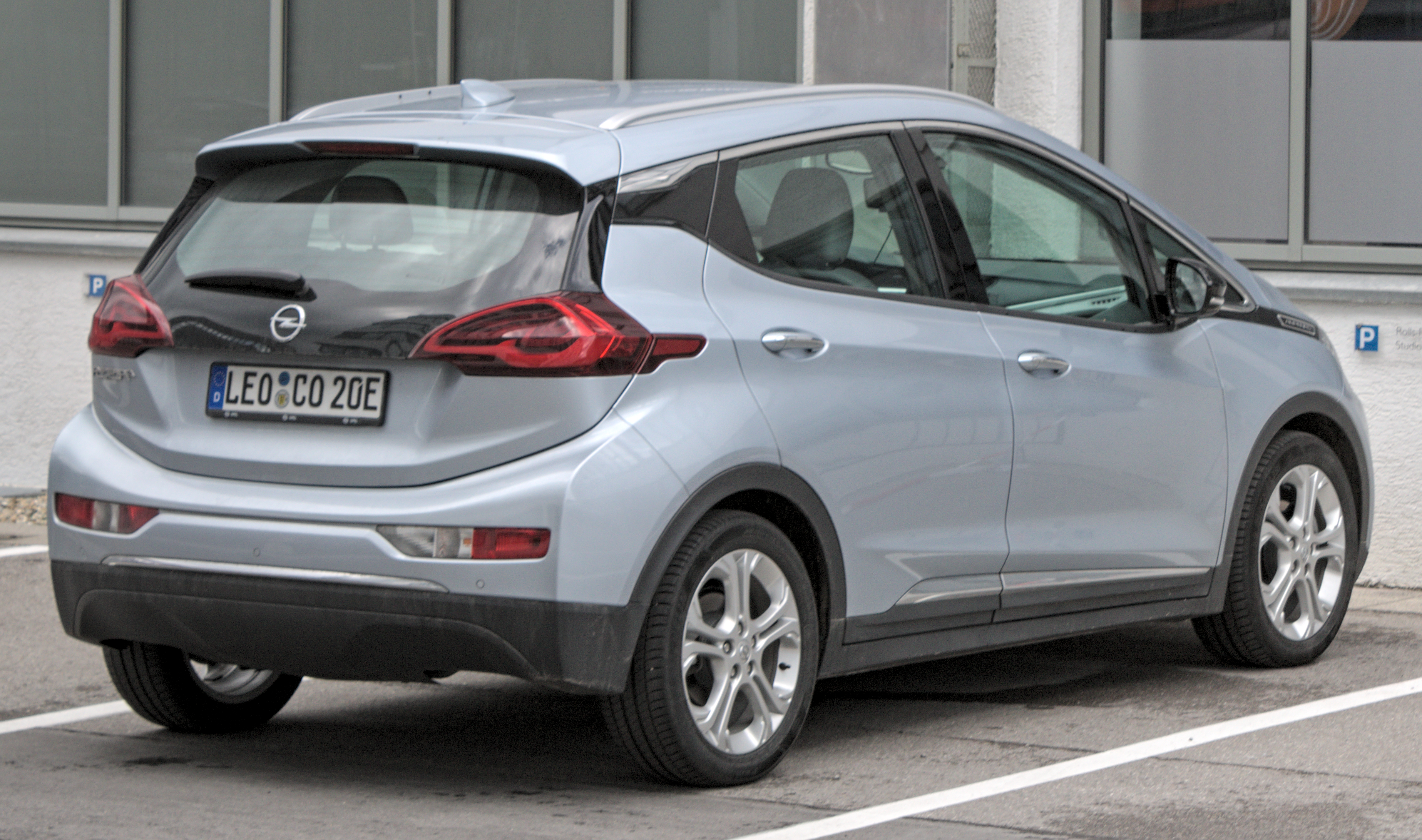 Opel_Ampera-e in Böblingen